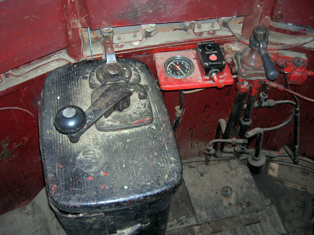 Controller and panel of GS-4 tram